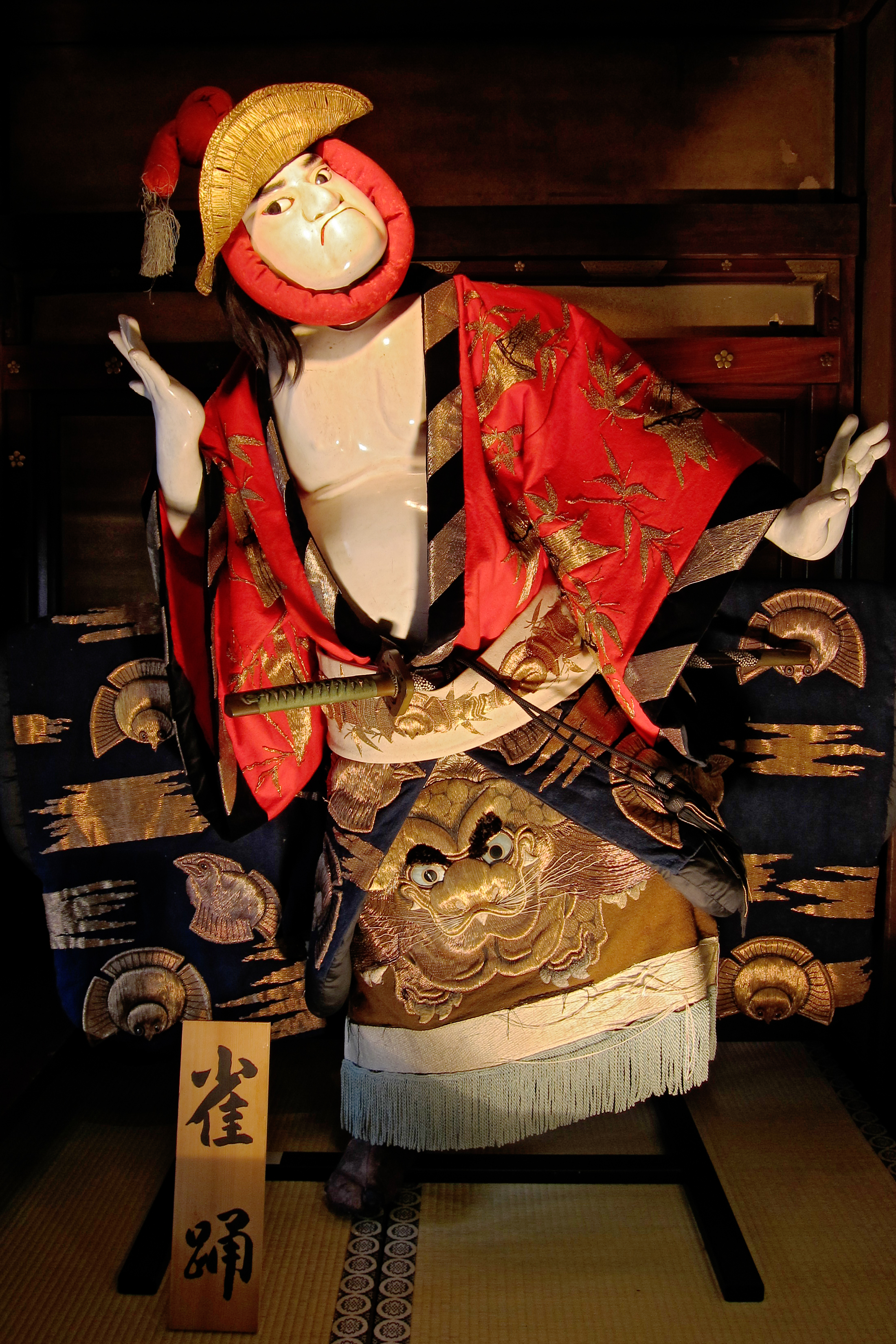 A furyuningyo of Osaka Temmangu (大阪天満宮の天神祭で使われる風流人形), Osaka City, Osaka prefecture, Japan.